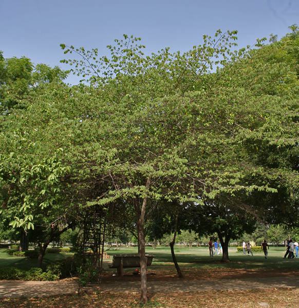 Singapur cherry Muntingia calabura in Hyderabad , India.